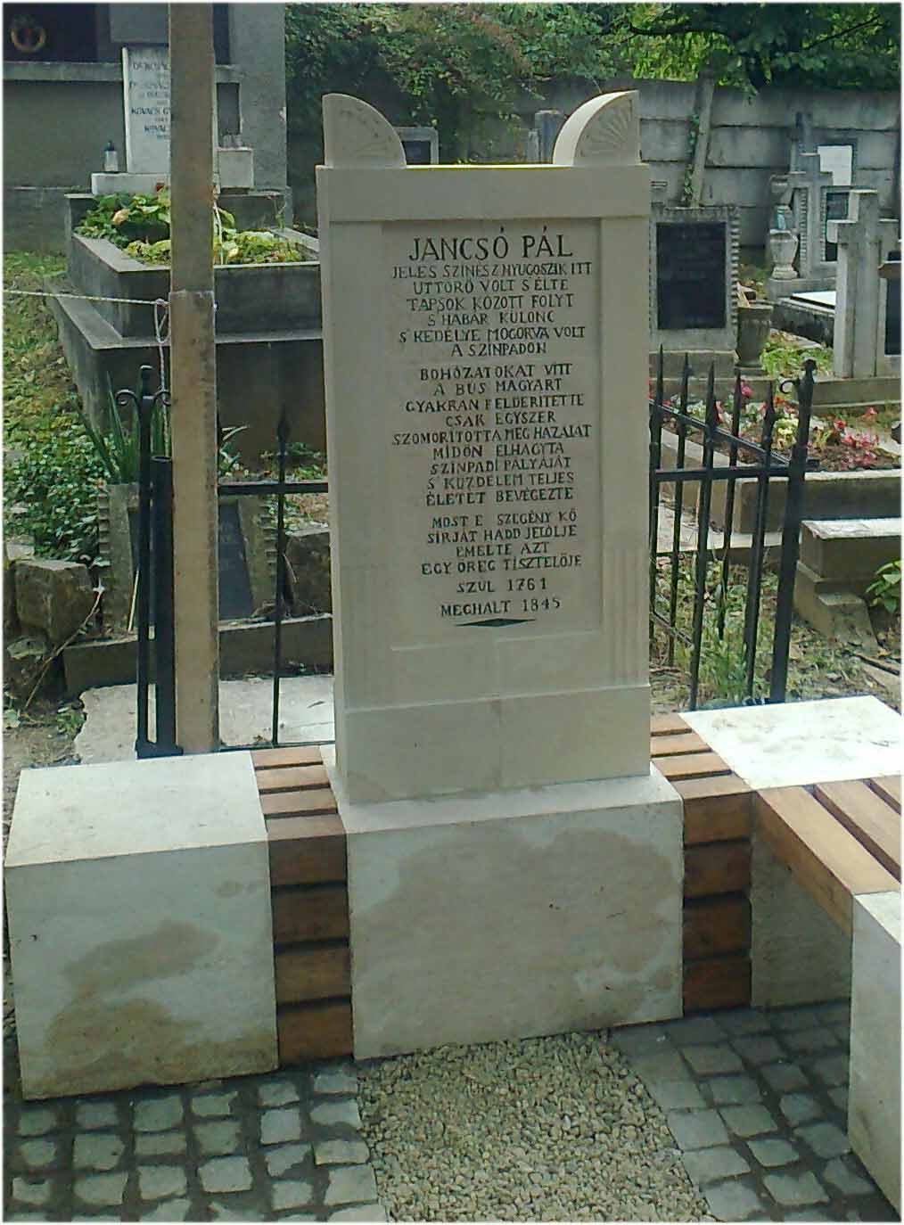 The renovated tombstone in graveyard Házsongárd (Cluj) of Pál Gidófalvi Jancsó ( actor, 1761-1845)